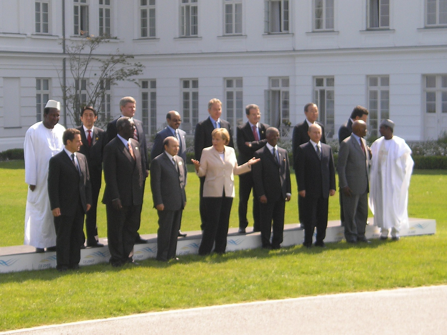 (left to right): Alpha Oumar Konaré of Mali, head of the African Union, French President Nicolas Sarkozy, Japanese Prime Minister Shinzo Abe, Ghana president John Kufuor, Canadian Prime Minister Stephen Harper, Algerian president Abdelaziz Bouteflika, Ethiopian Prime Minister Meles Zenawi, German chancellor Angela Merkel, British Prime Minister Tony Blair, Italian Prime Minister Romano Prodi, South African president Thabo Mbeki, Russian president Vladimir Putin, UN Secretary-General Ban Ki-moon, Senegal president Abdoulaye Wade, EU Commission President José Manuel Barroso, and Nigerian president Umaru Yar'Adua.